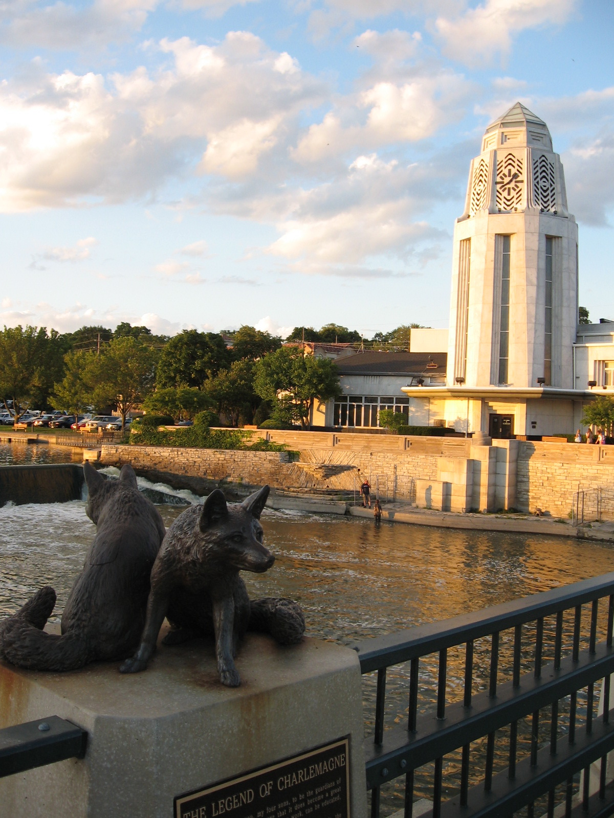 Photo of the Municipal Center (City Hall) and the Fox River in St. Charles, IL, taken from the north side of the Main St. (IL route 64) bridge. The St. Charles dam over the river can be seen, along with the fish ladder along the East (right) side of the dam. Photo taken July 12, 2007, around 8pm.